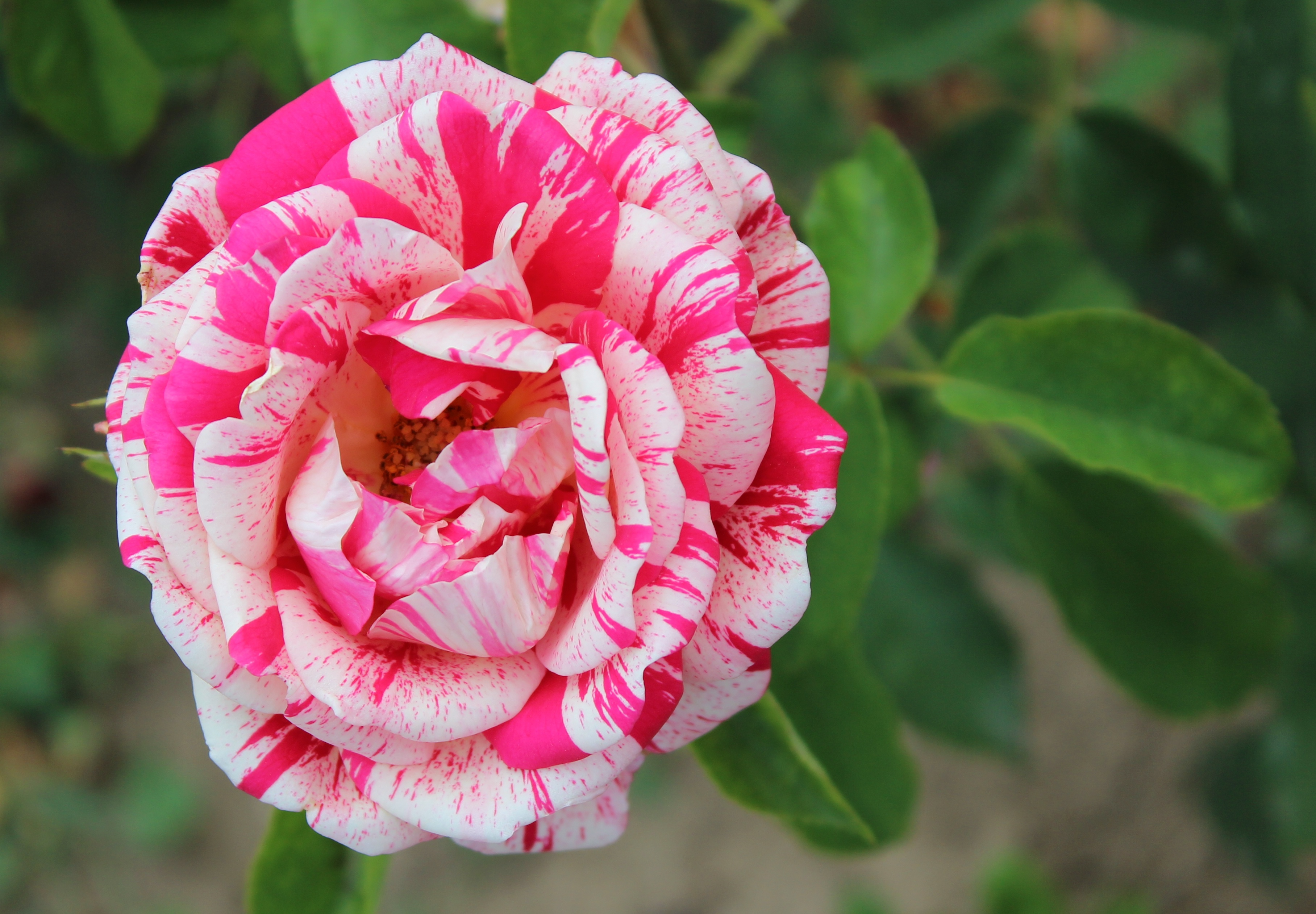 Rosa 'Papageno' in the Rosarium Wettsteinpark in Vienna. Identified by sign. (Edelrose 'Papageno', Z.J.: 1989)